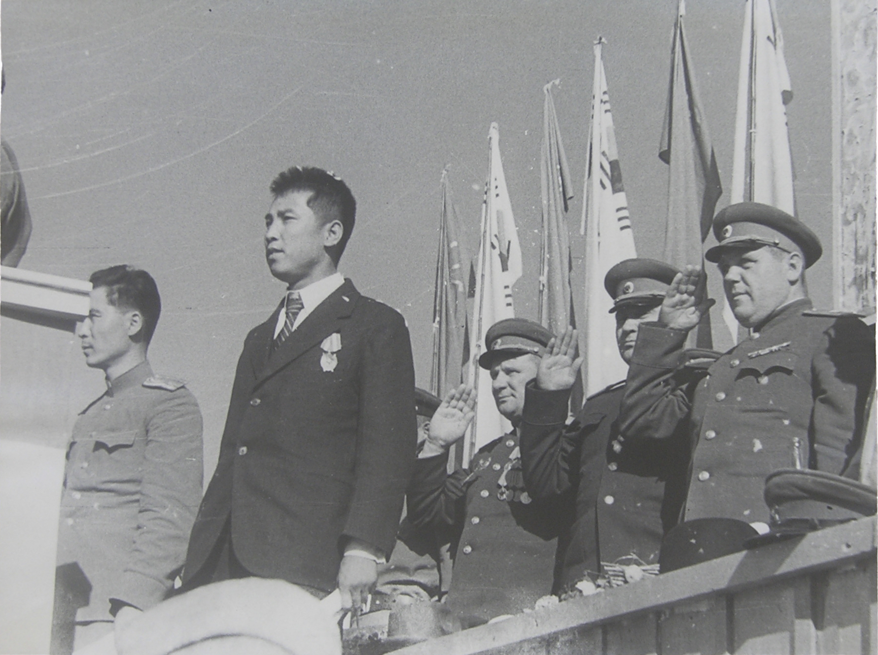 Soviet military advisers attending North Korean mass event. From left : Soviet Major Mikhail Kang (Soviet Korean), Kim Il Sung(1912~1994). Right most : Major General Nikolai Georgievich Lebedev(1901~1992), member of the Military Council of the Soviet 25th Army which occupied North Korea.